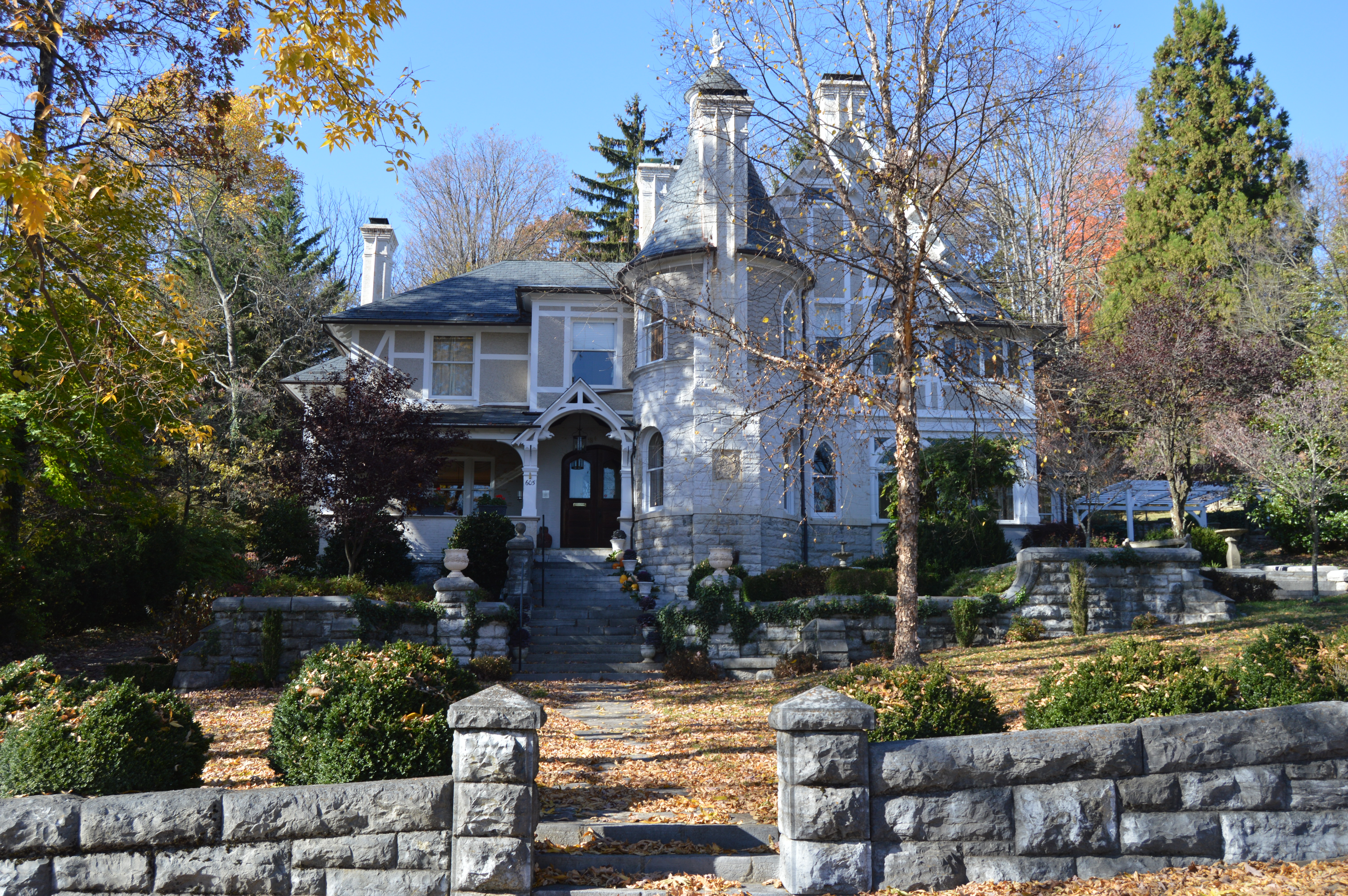 Front of Oakdene, home of Lieutenant Governor Edward Echols, located at 605 Beverley Street in Staunton, Virginia, United States. Built in 1893, it is listed on the National Register of Historic Places.